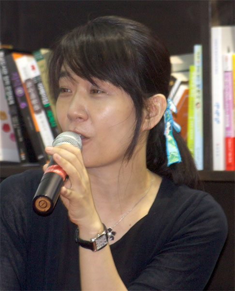 Han Kang at SIBF 2014